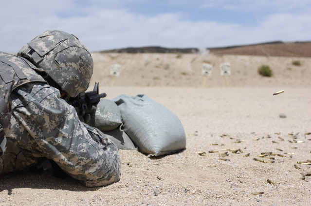 Gunfighter Phase of United States Army Basic Training